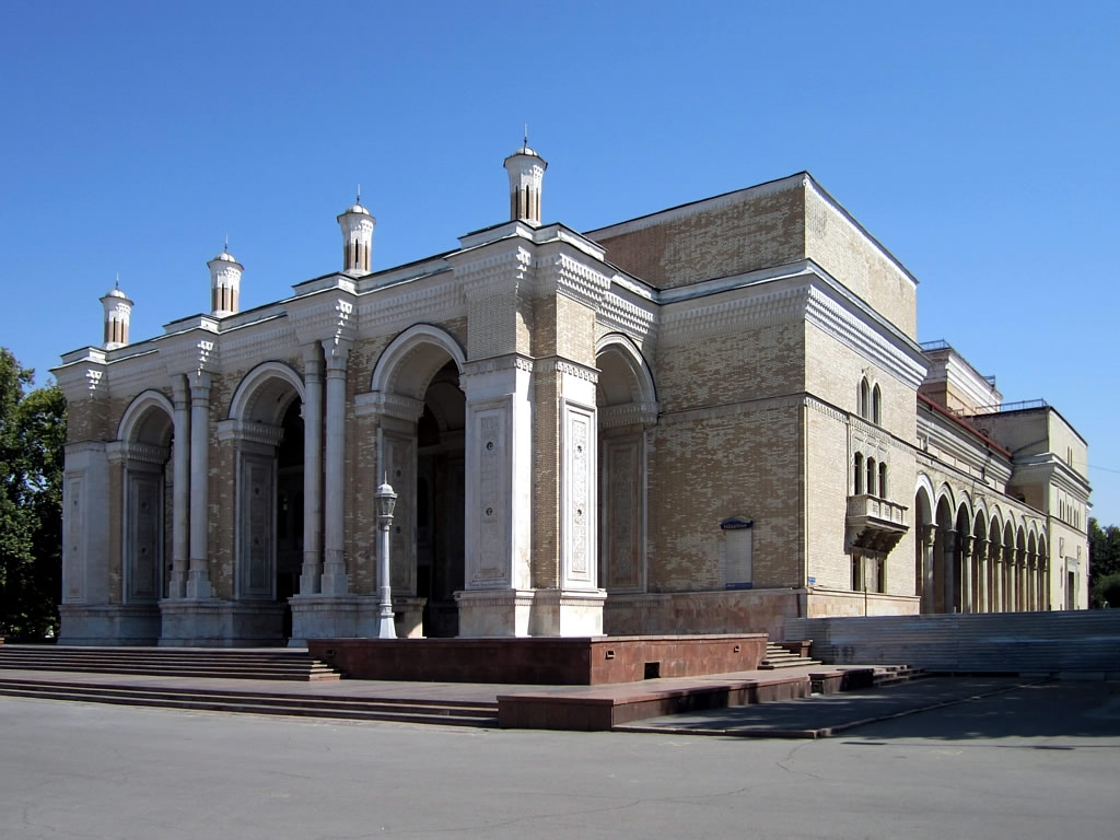 The Alisher Navoi Theater in Tashkent, Uzbekistan, was built by Japanese prisoners of war in 1947.